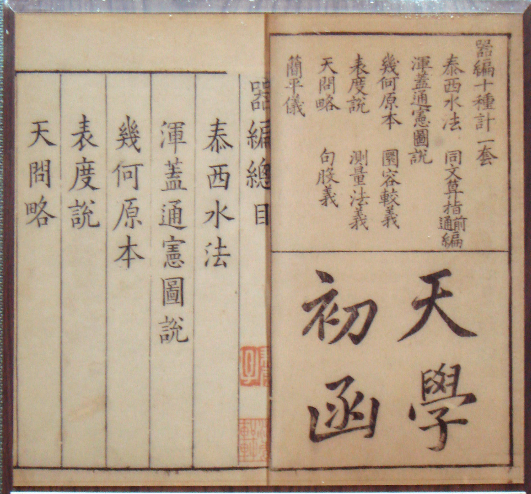 Introduction_to_Astronomy_translated_by_Xu_Guangqi_and_edited_by_Li_Zhizao.